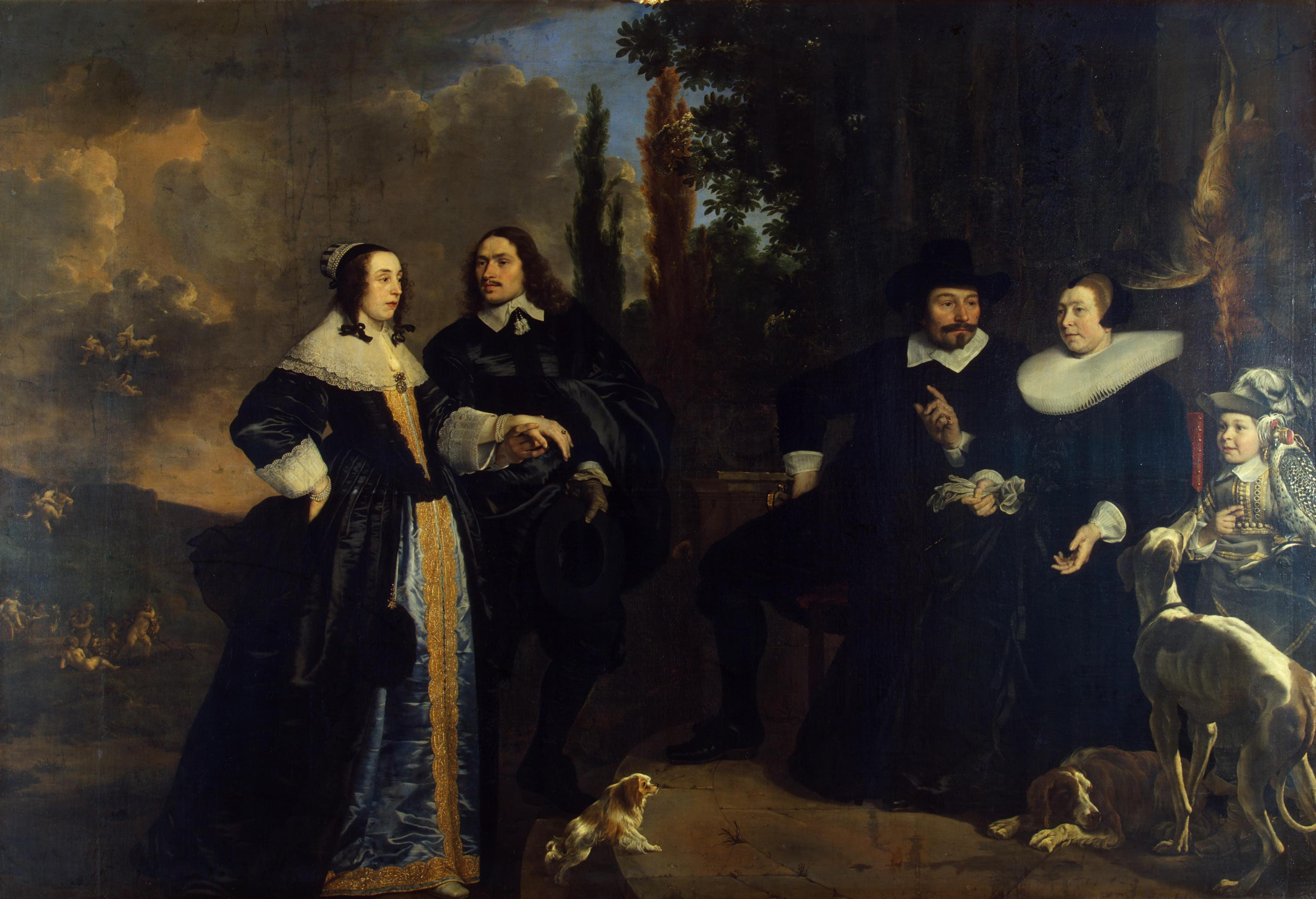 This image is available from the Netherlands Institute for Art Historyunder digital ID 42891. This tag does not indicate the copyright status of the attached work. A normal copyright tag is still required. See Commons:Licensing.